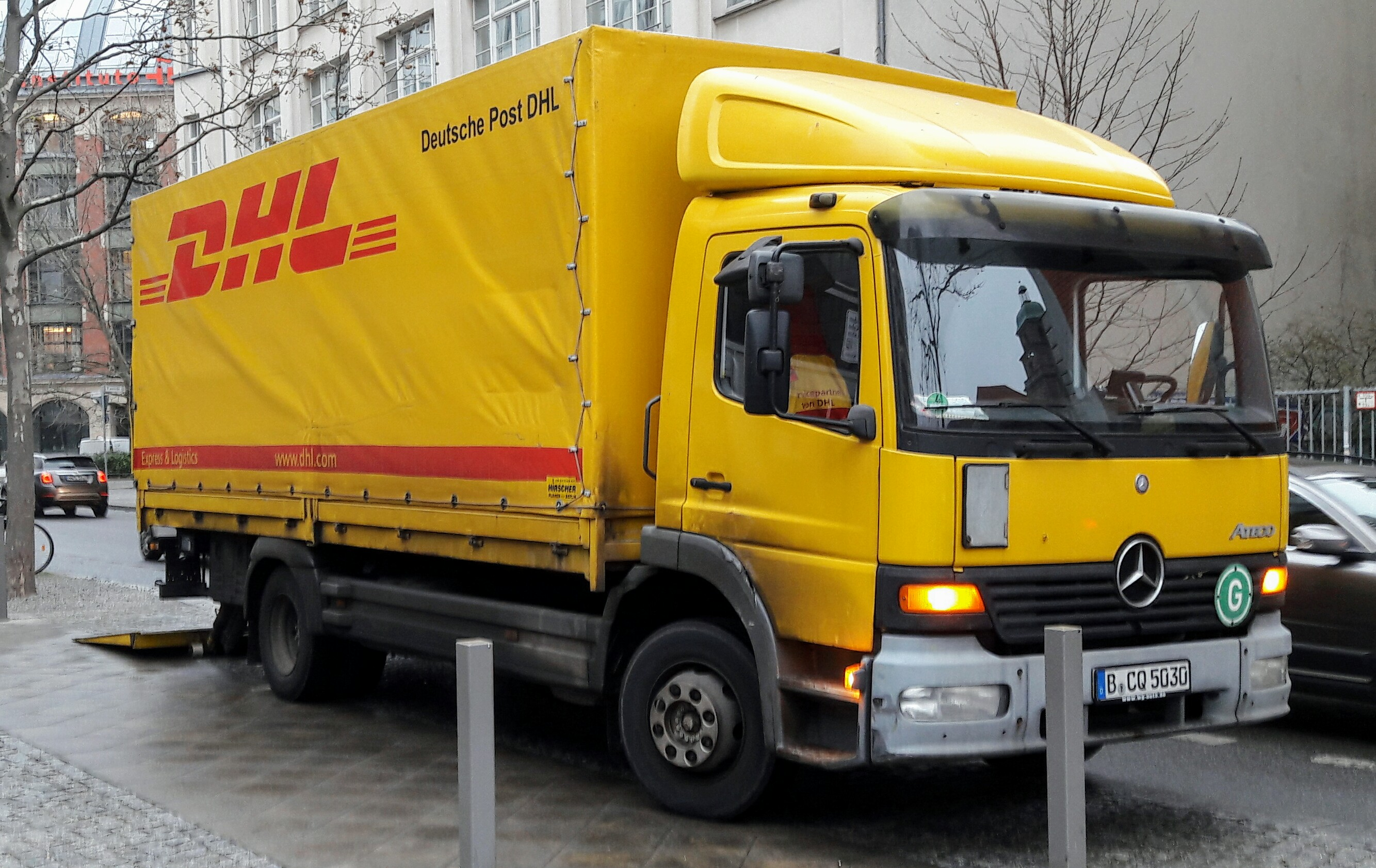 Delivery truck of DHL Freight in Berlin